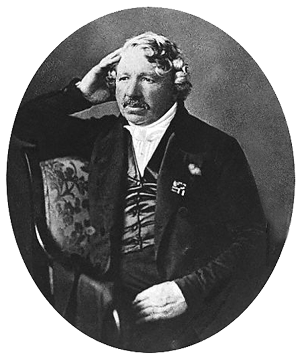 Daguerreotype of Louis Daguerre